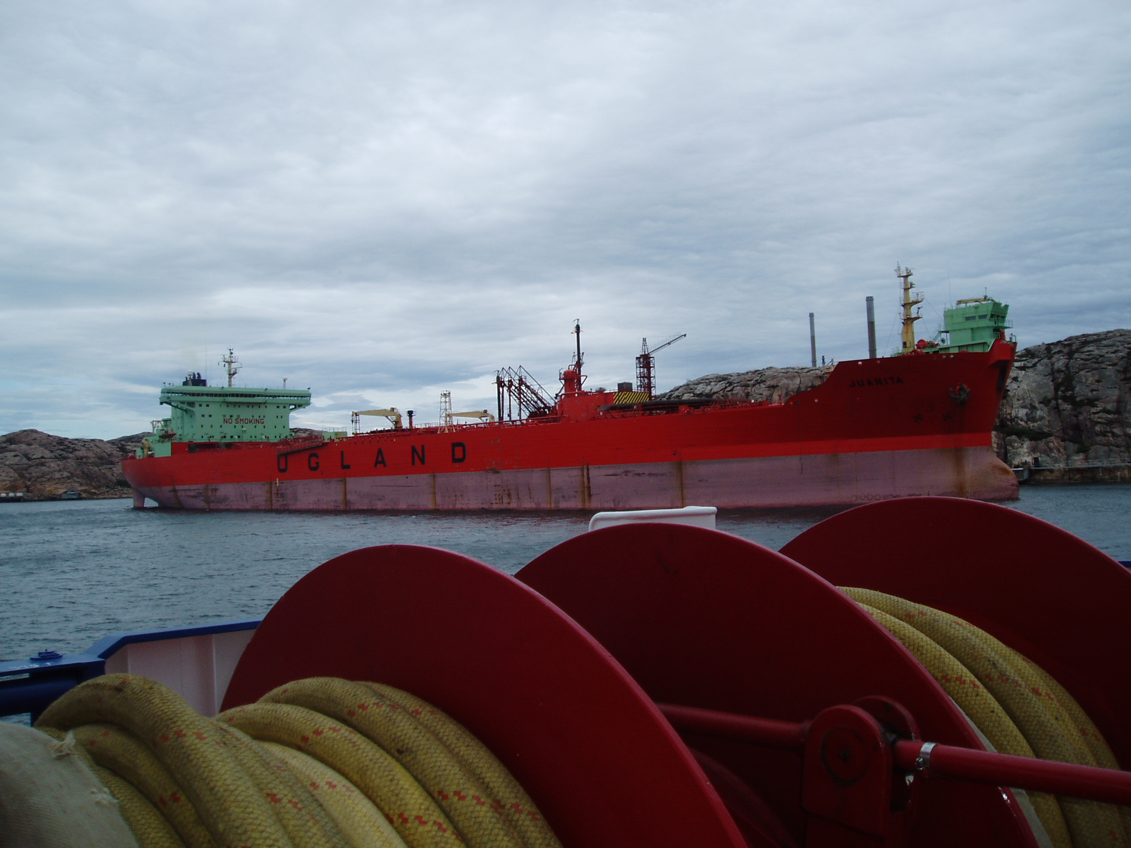 Boy Loader Juanita in Brofjorden IMO Number: 8520331 MMSI Number: 257209000 Callsign: LAGQ Length: 260 m Beam: 46 m